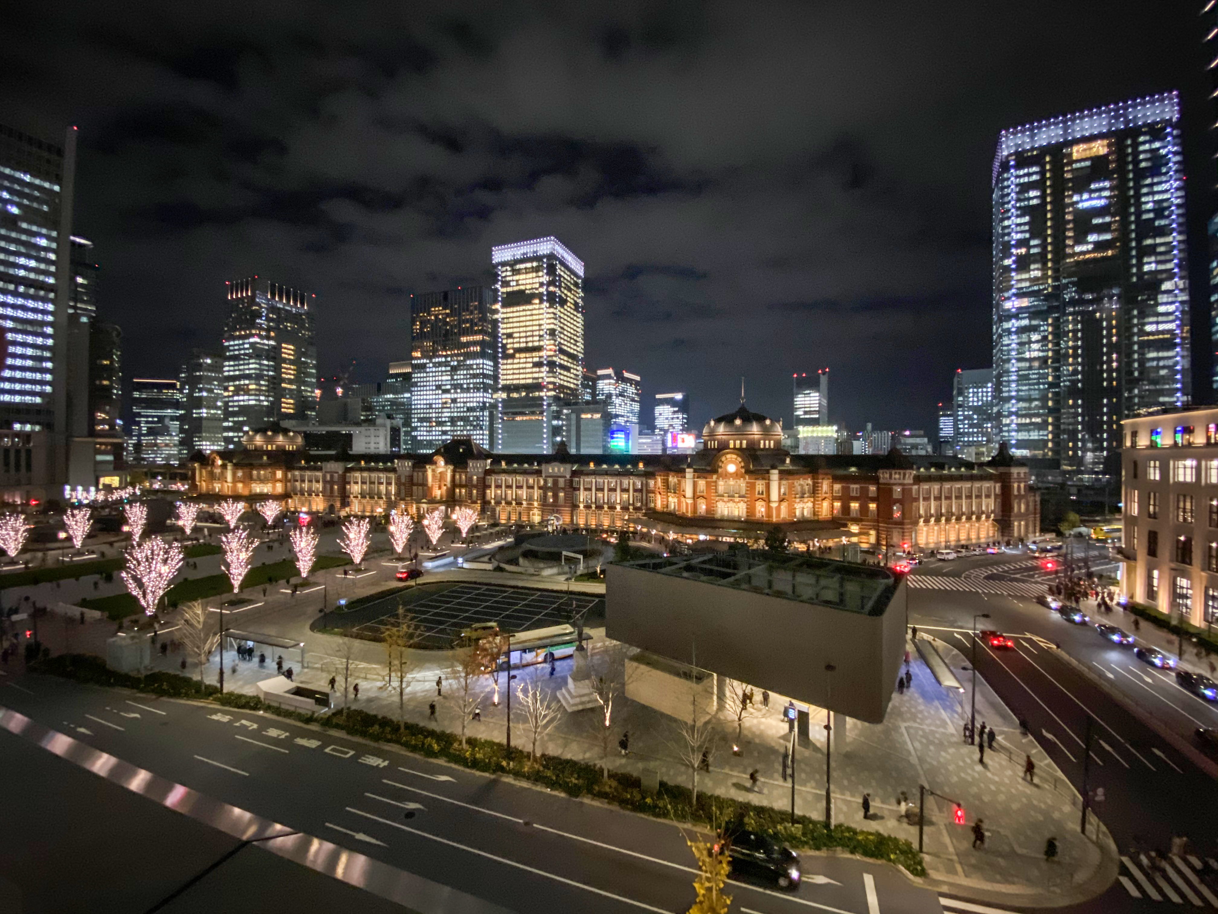 Tokyo Station Marunouchi Building at night